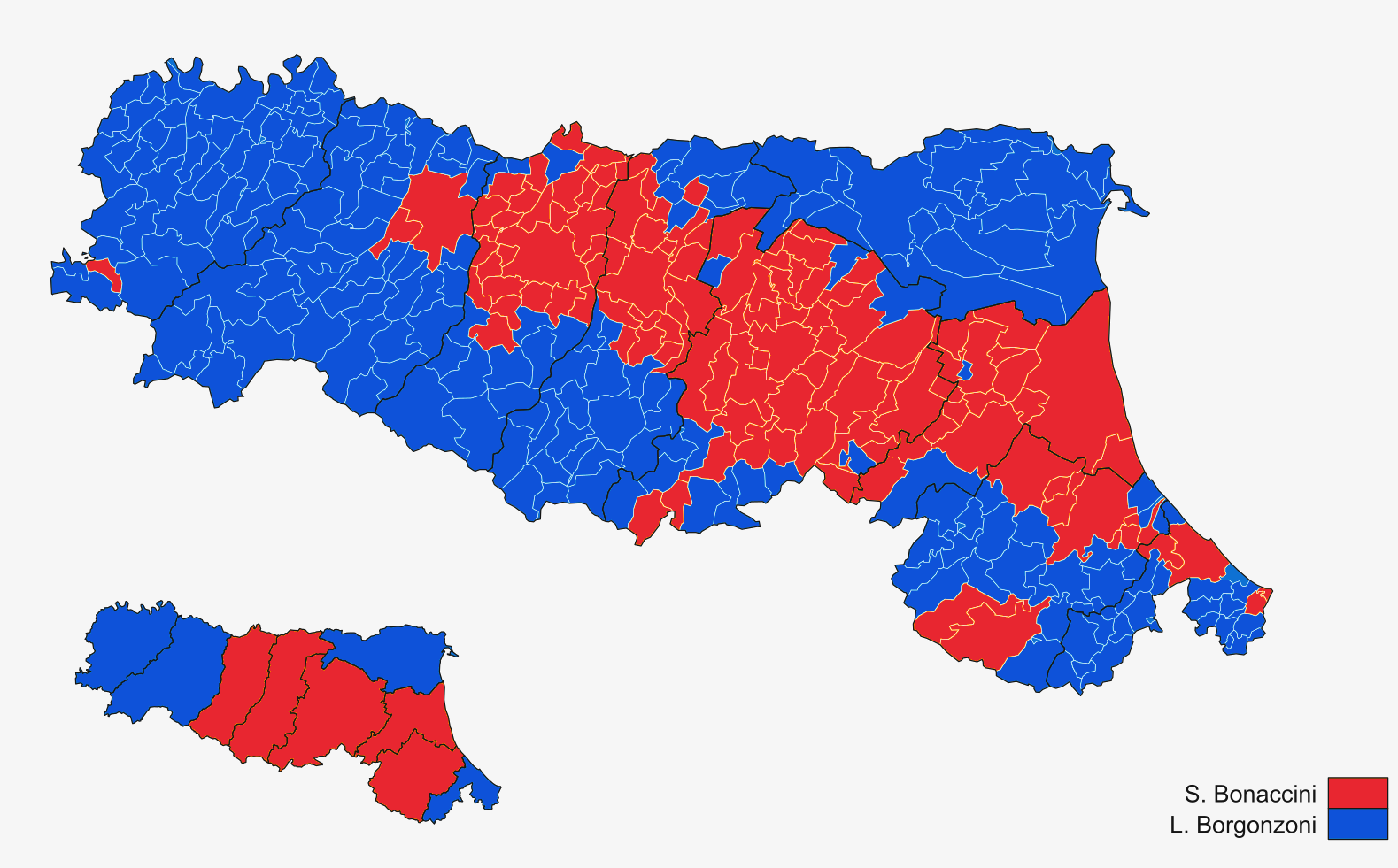 Map of the 2020 Emilia-Romagna regional election.